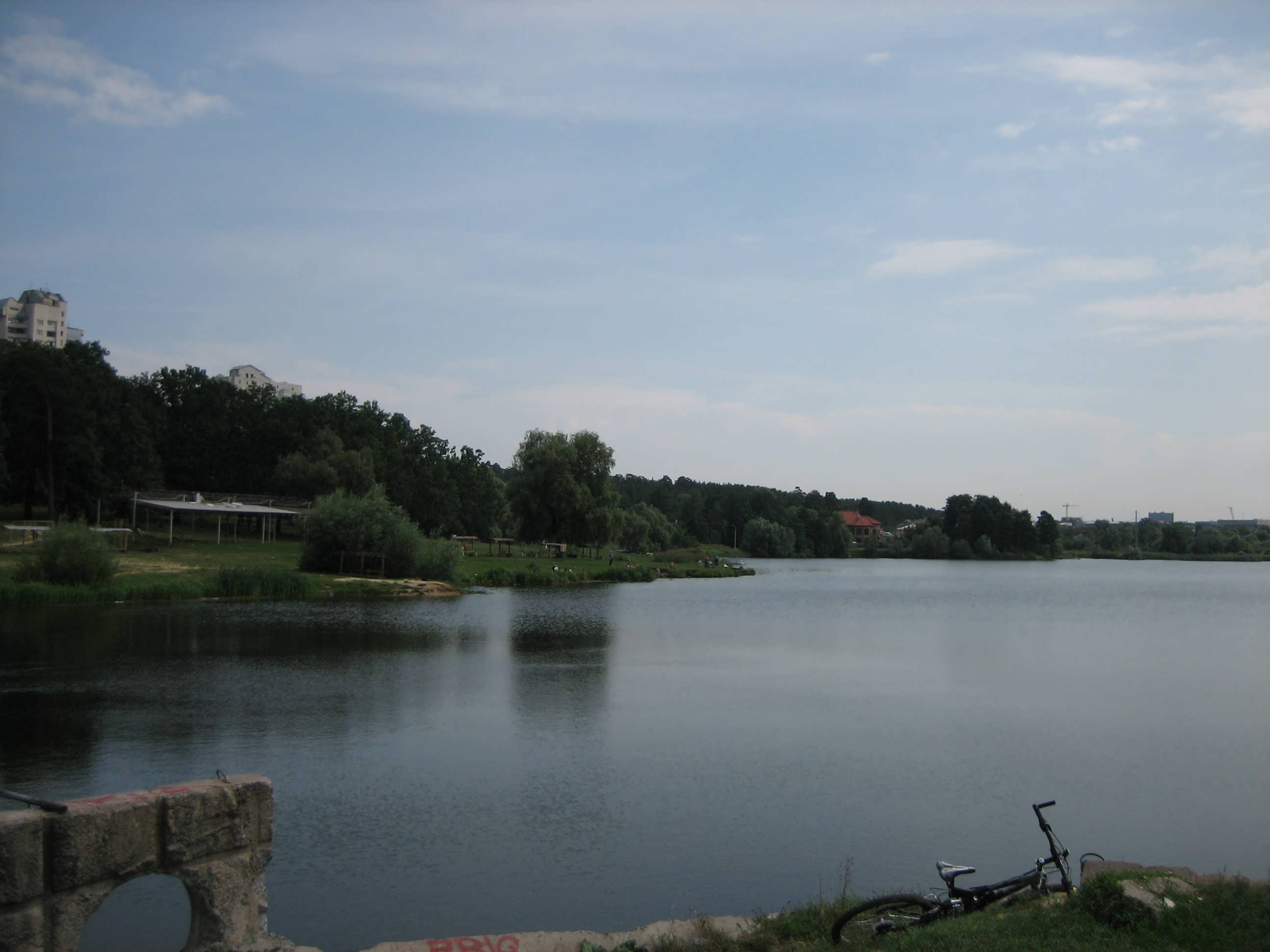 Sviatoshyn pond, Kiev, Ukraine